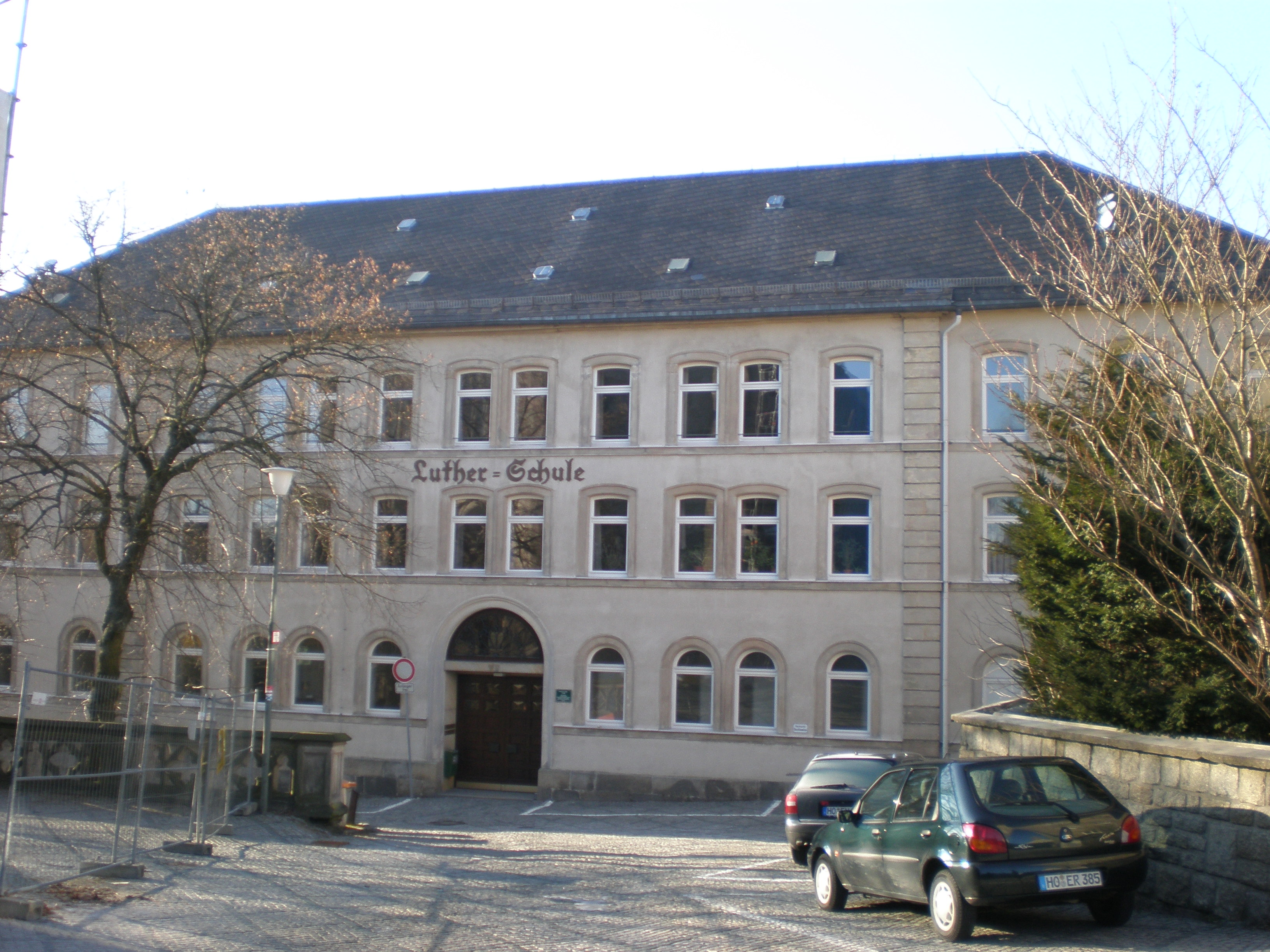 The "Martin-Luther-Schule" in Münchberg.